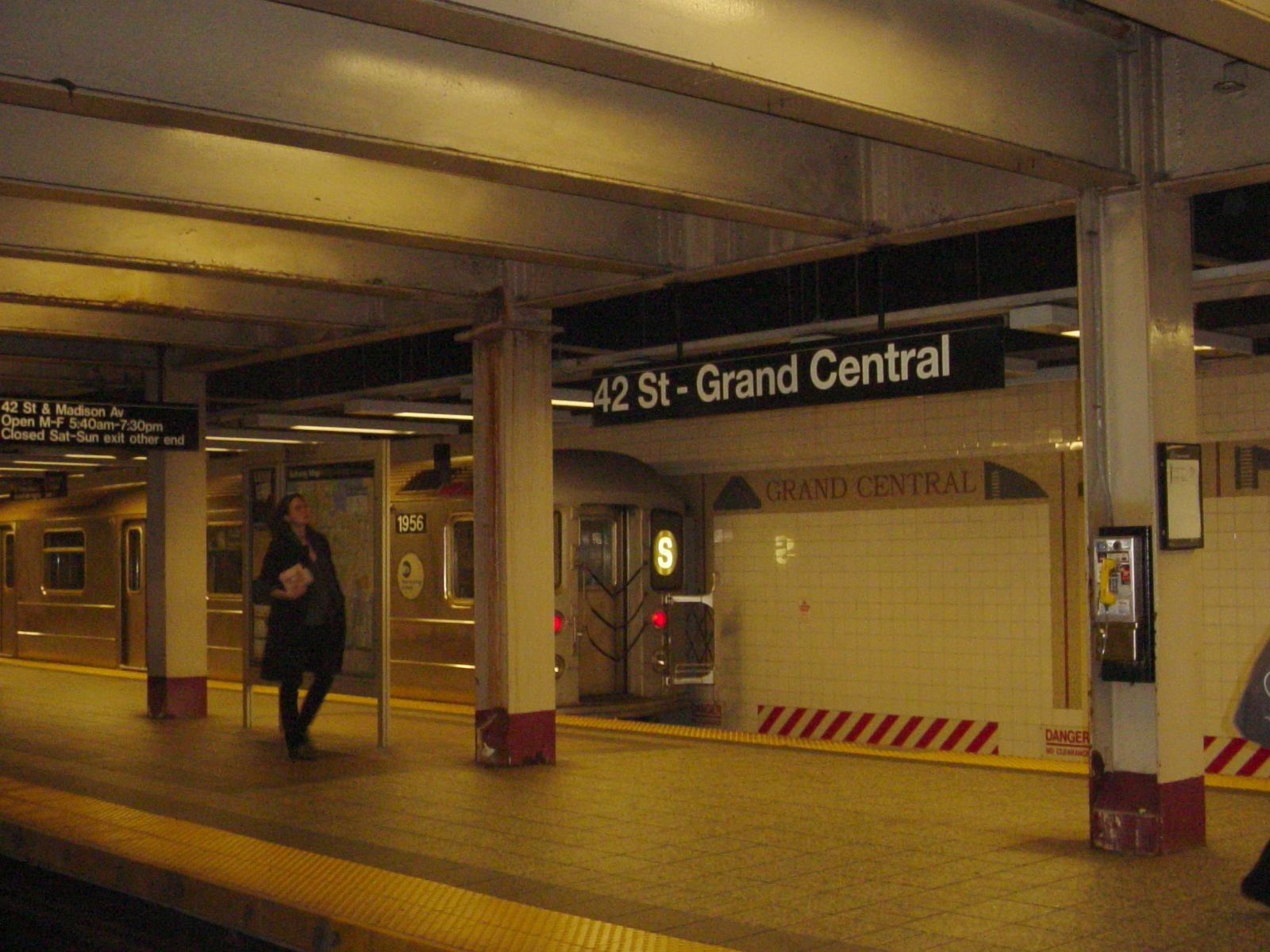 View of en:42nd Street – Grand Central (IRT 42nd Street Shuttle) station, westbound (originally northbound) platform